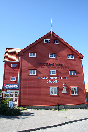 Ytre Hvaler National park, national park center in Skjærhalden